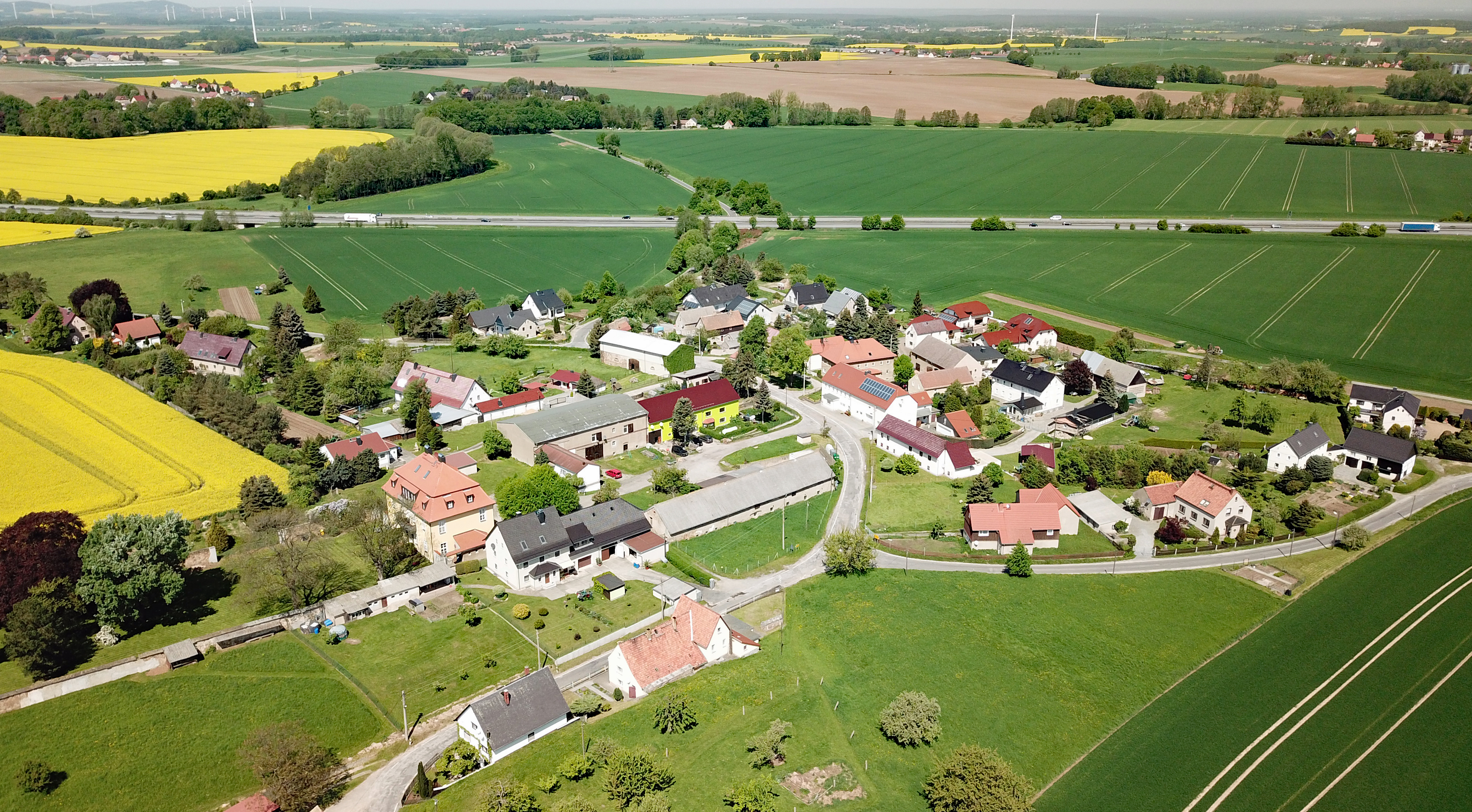 Pannewitz (Burkau, Saxony, Germany) Hornjoserbsce: Powětrowy wobraz Panec